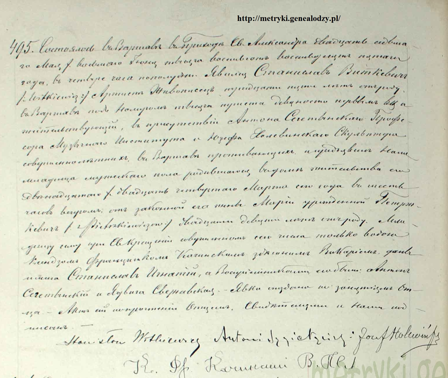 akt urodzenia Stanisława Ignacego Witkiewicza